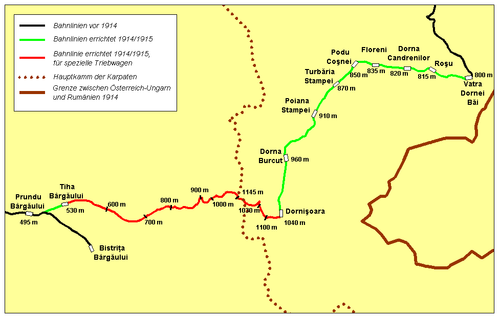 Map of the railway Prundu Bargaului - Vatra Dornei 1915